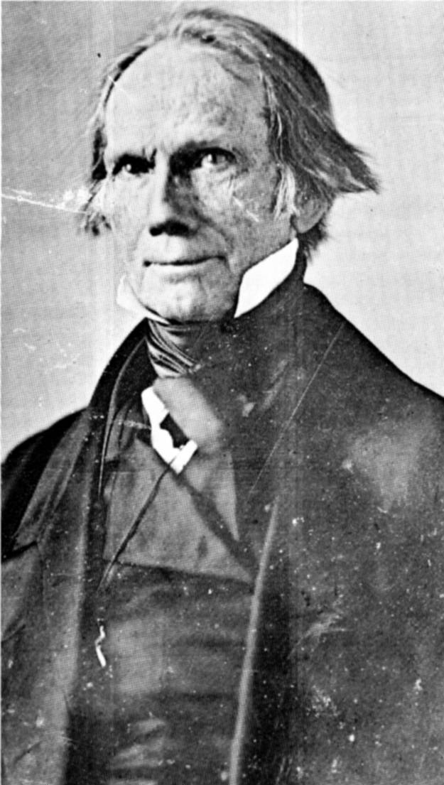 Photo of Henry Clay in 1849, by Mathew Brady.